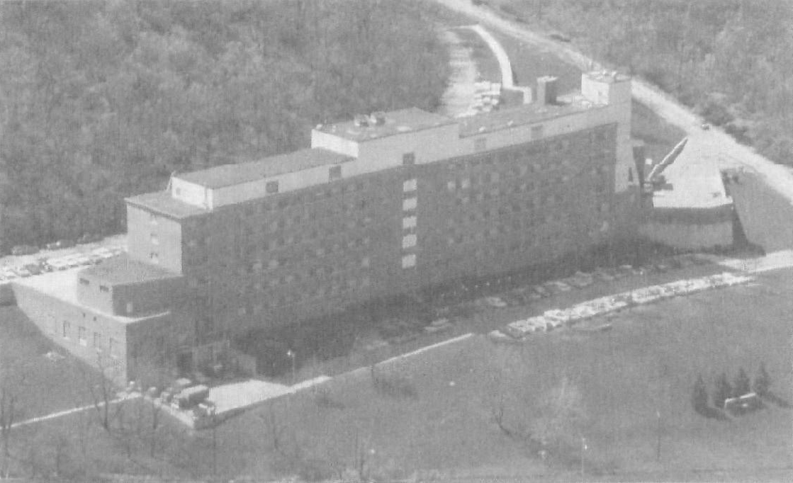 Aerial view of Robert A. Taft Laboratory in Cincinnati